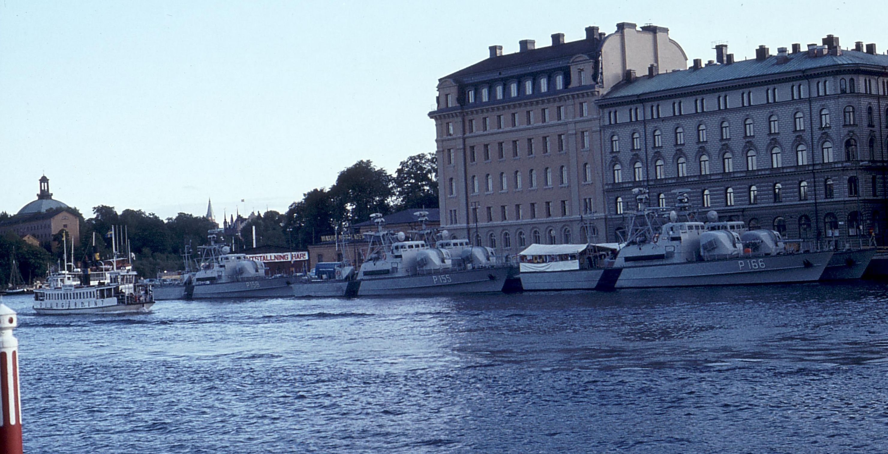 Swedish Navy 5:th Patrolboatdivision berthed in central Stockholm august 1982. Two of the ships are hosts to a cocktail party with senior Swedish officers.